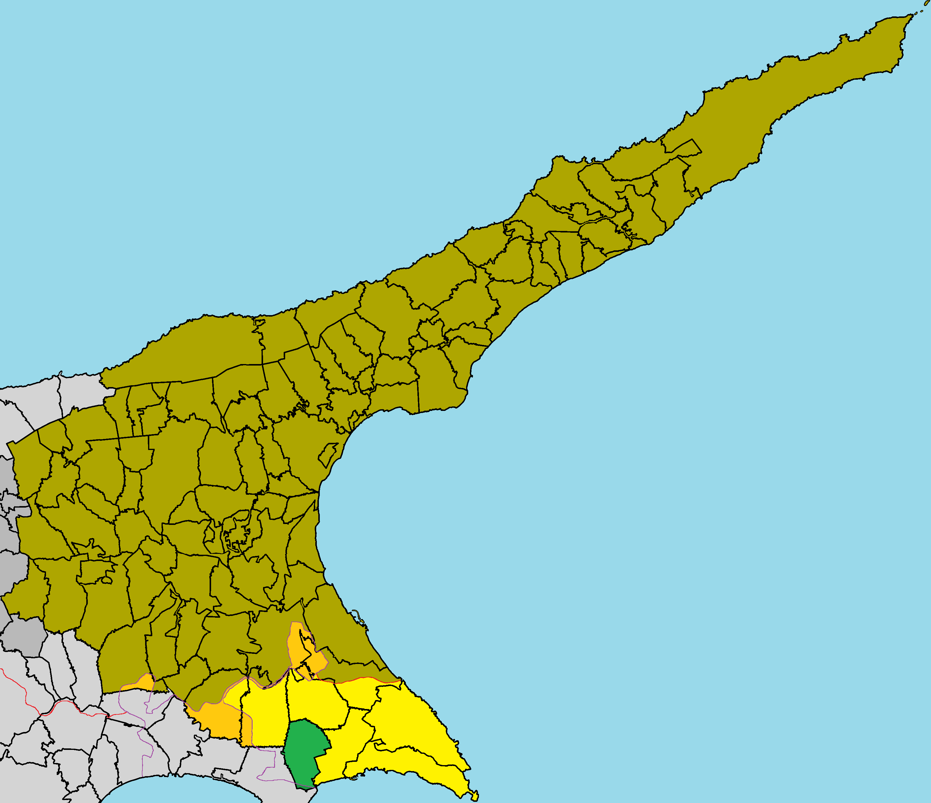 Liopetri in Famagusta District.